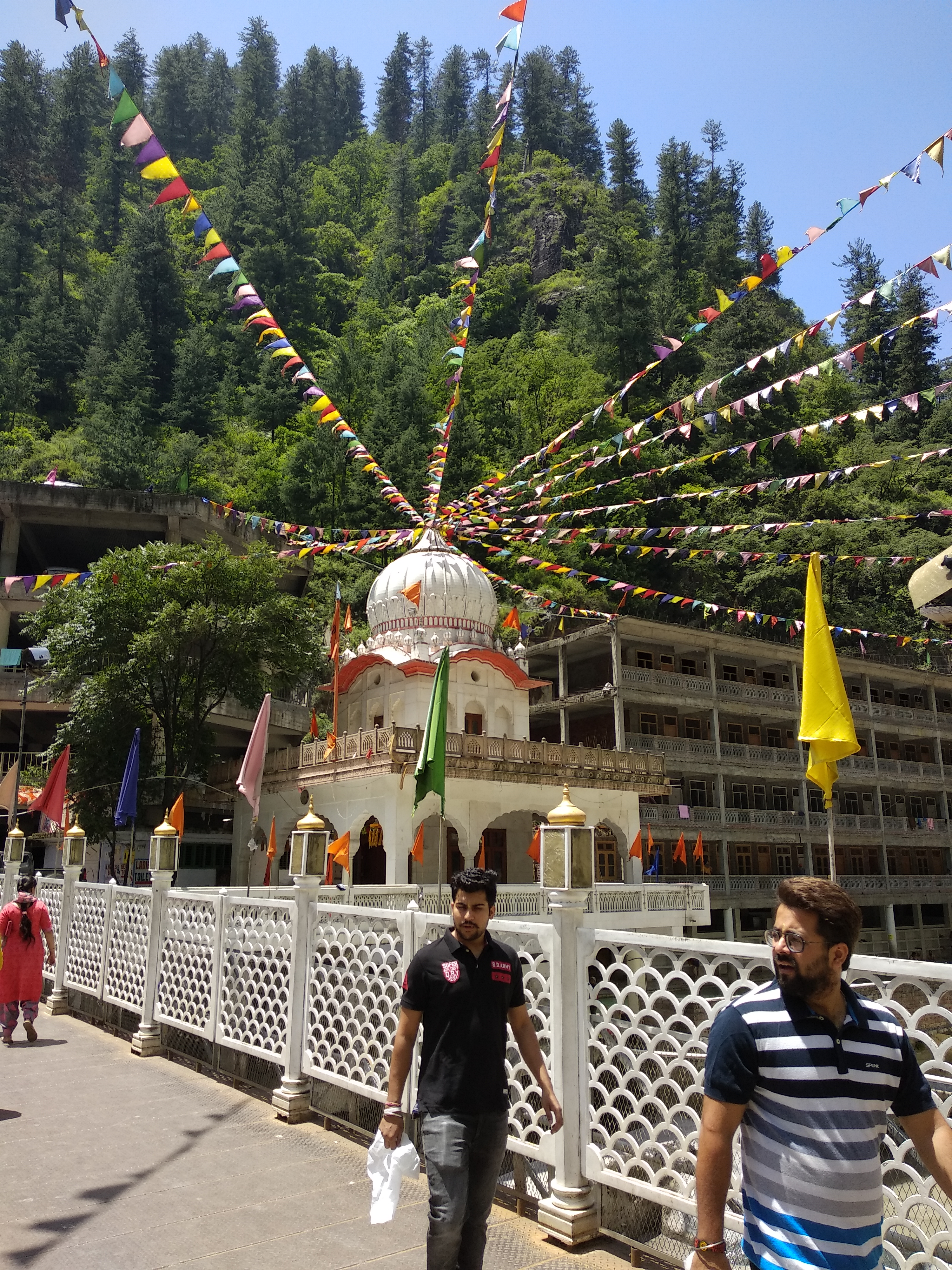 View of Manikaran Sahib from Beas Bridge